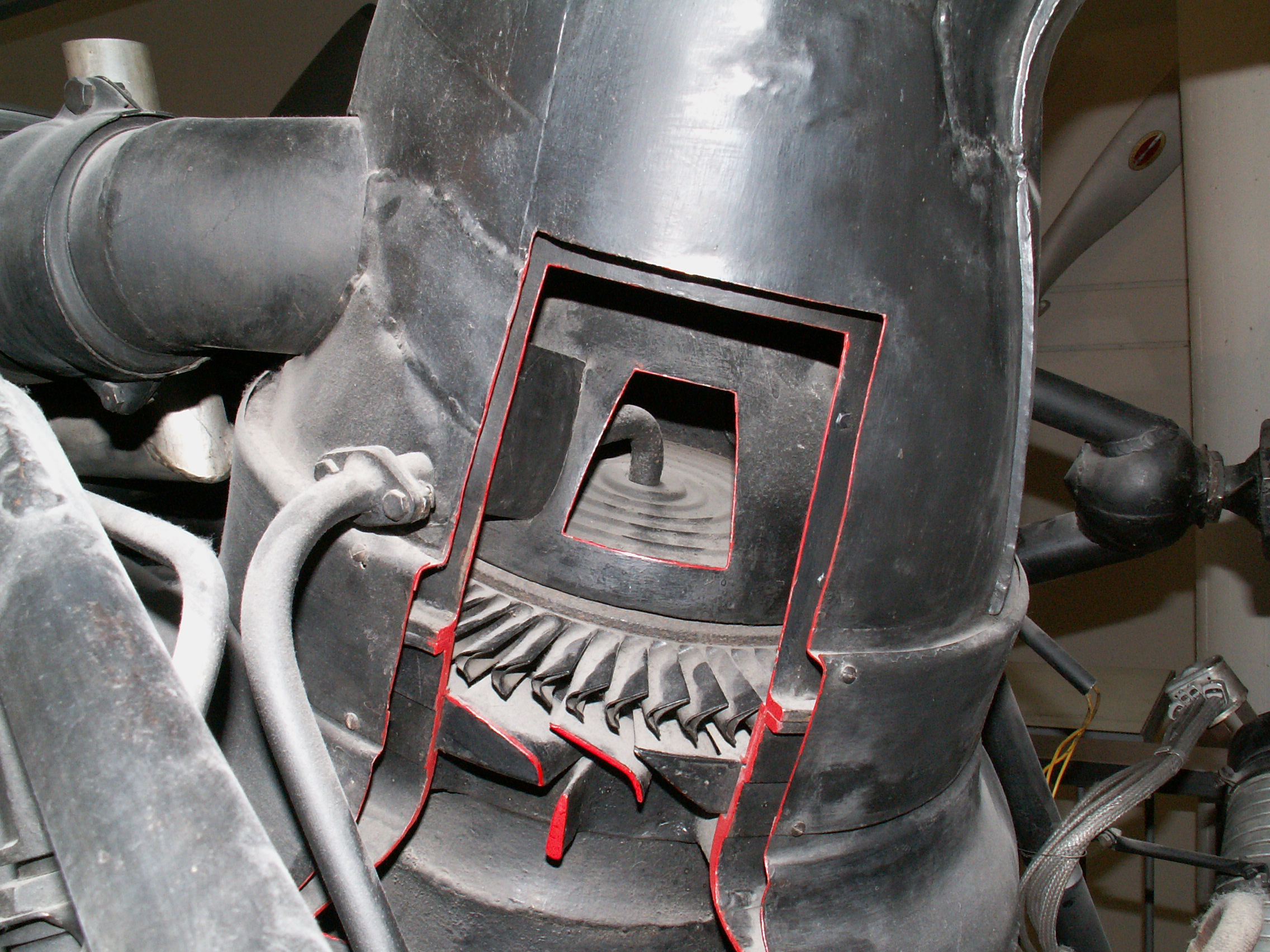 Turbo-Supercharger, BMW801TJ-0